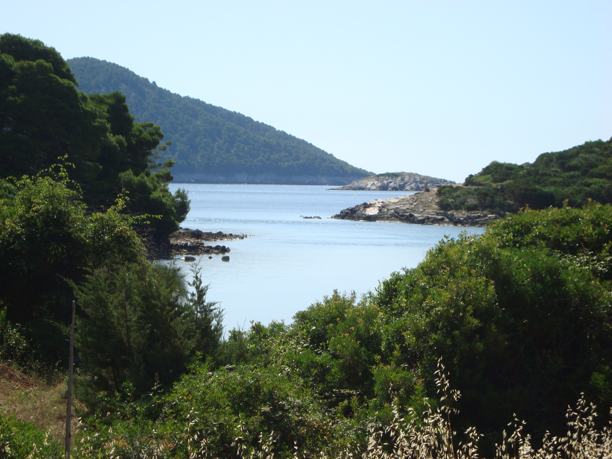 Vrata od Solina (Soline Gate), the enter in Soline Chanel and the beginning of the Great LAke on the island of Mljet, Croatia